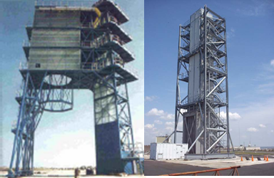 NASA Wallops Flight Facility Launch Pads 0-A and 0-B